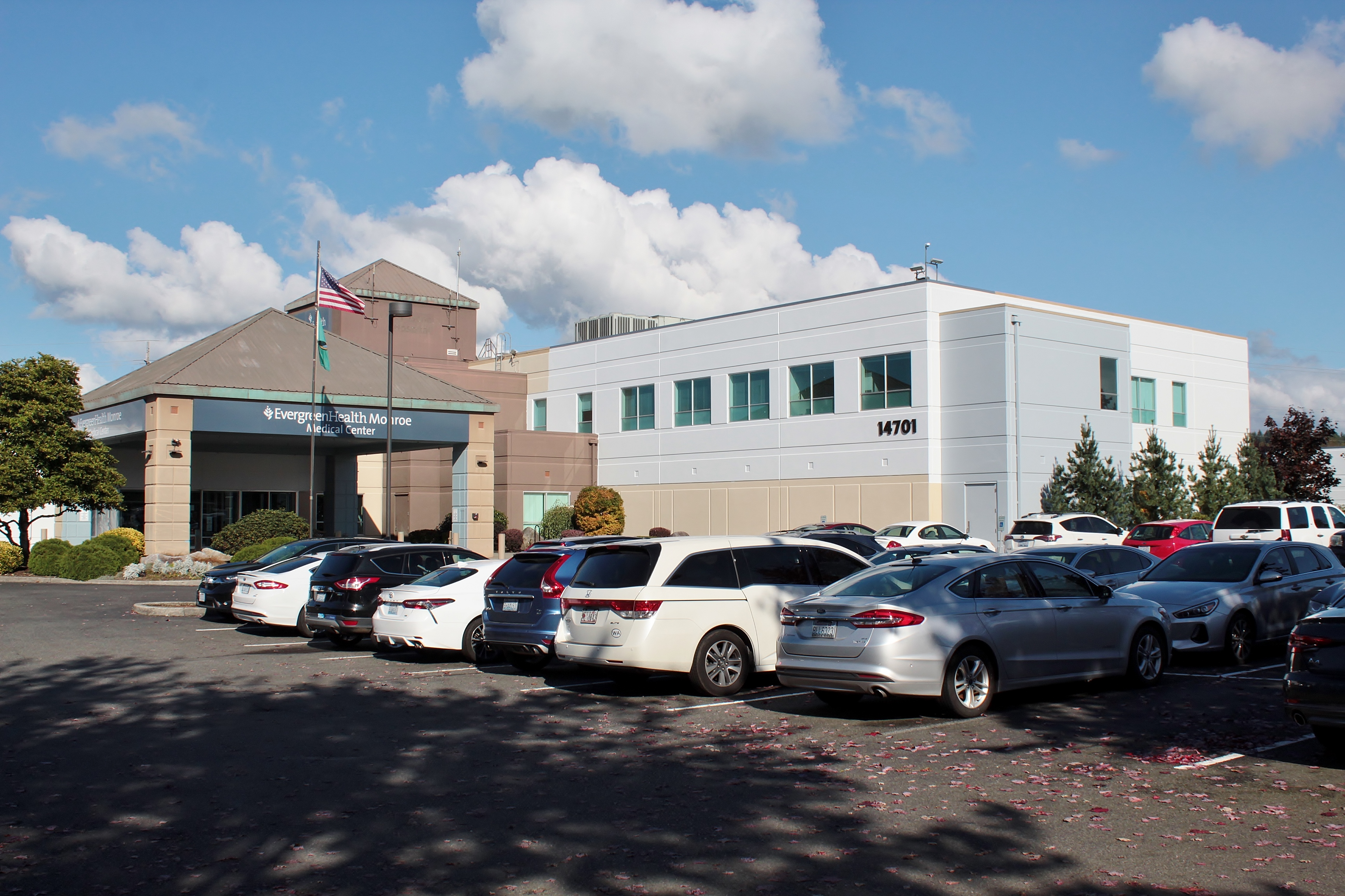 The front entrance of EvergreenHealth Monroe, a local hospital serving Monroe, Washington. Until 2014, it was known as the Valley General Hospital.